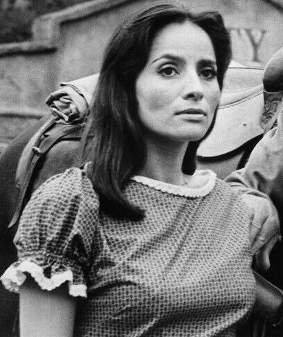 A publicity photo of Pilar Pellicer taken in 1969.